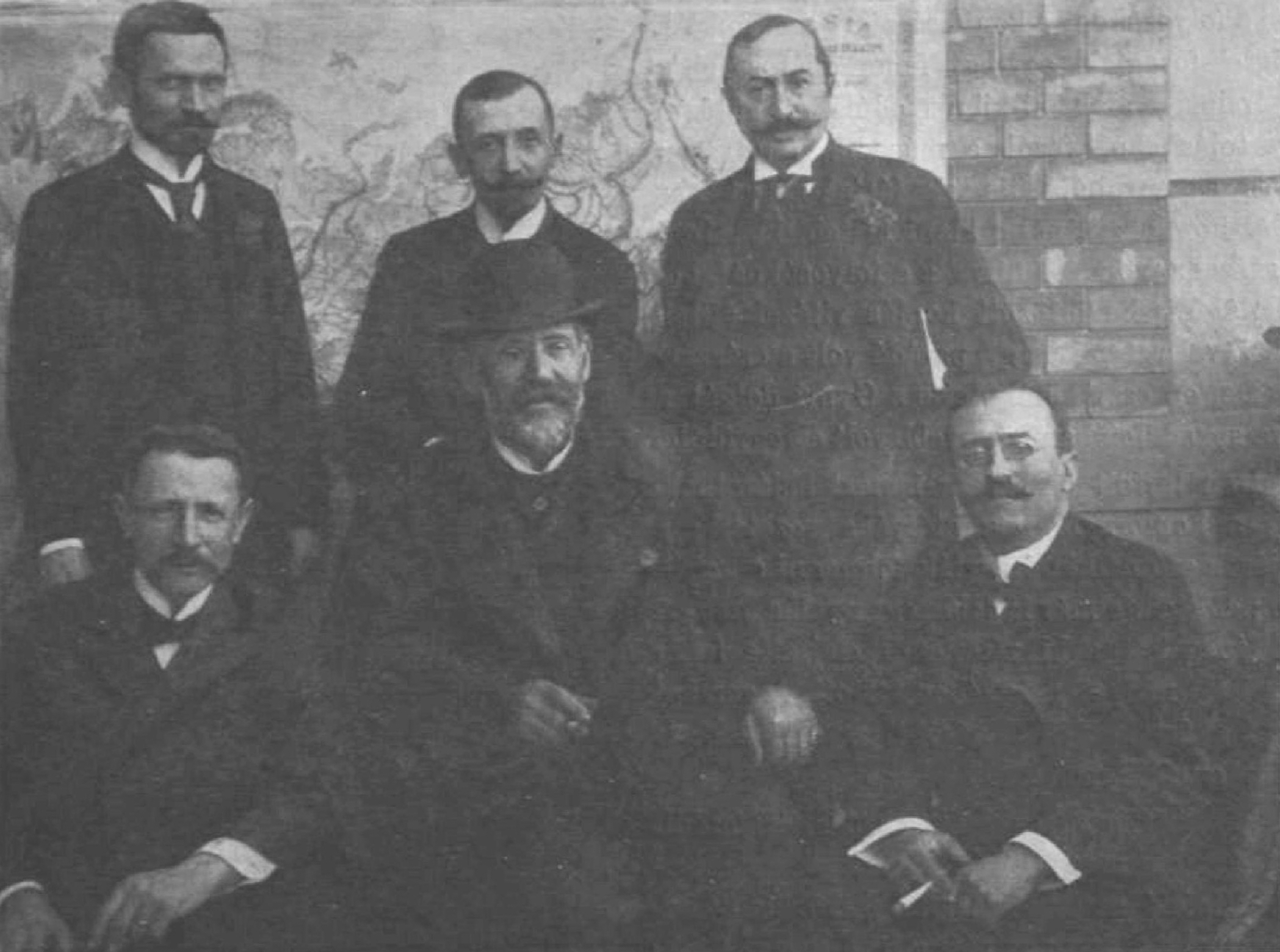 Sven Hedin in Budapest together with five Hungarian Asia-researcher